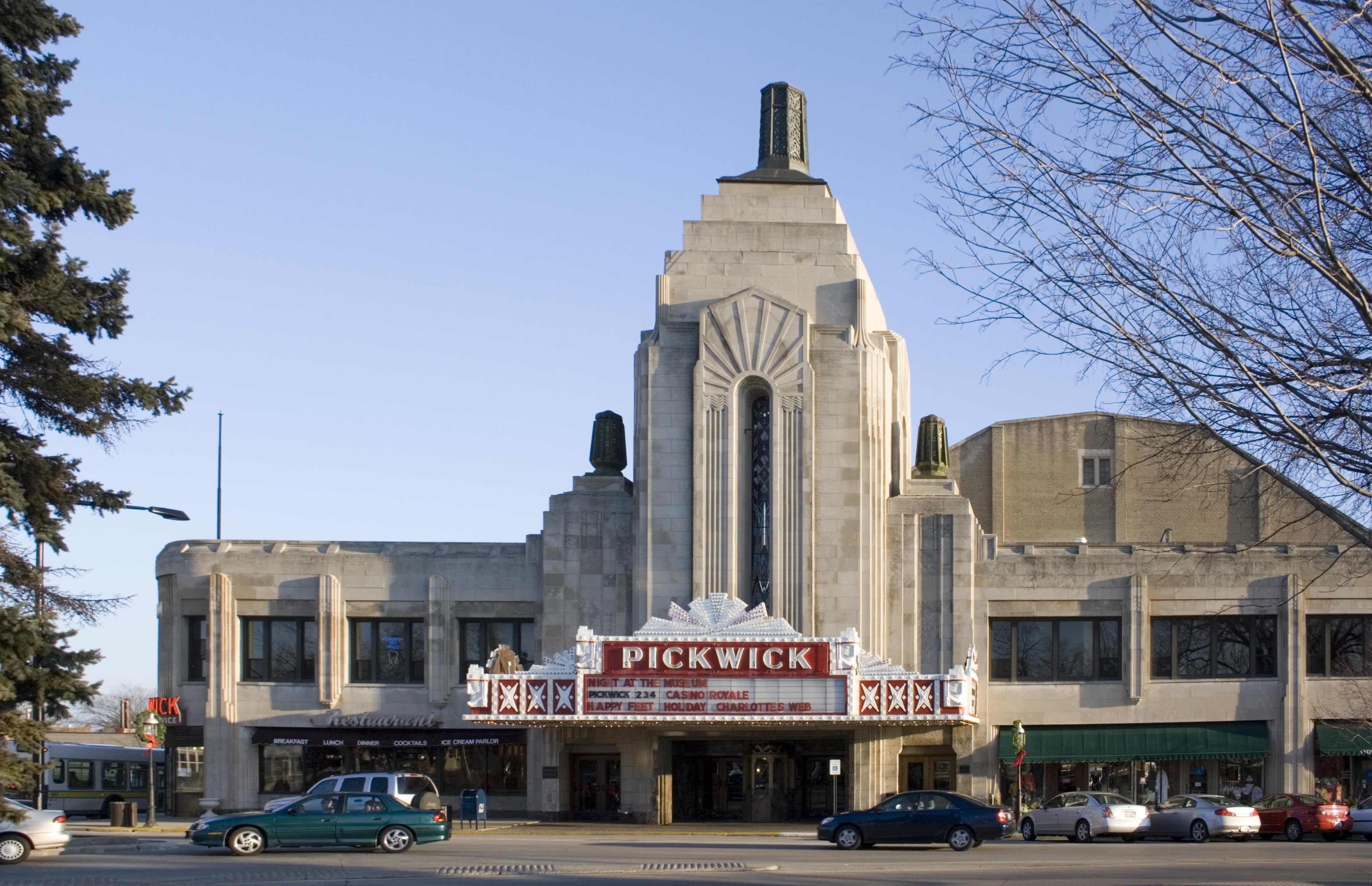 The Pickwick Theatre in downtown Park Ridge, Illinois. Photograph taken January 6, 2007; processed in hugin to remove keystoning.